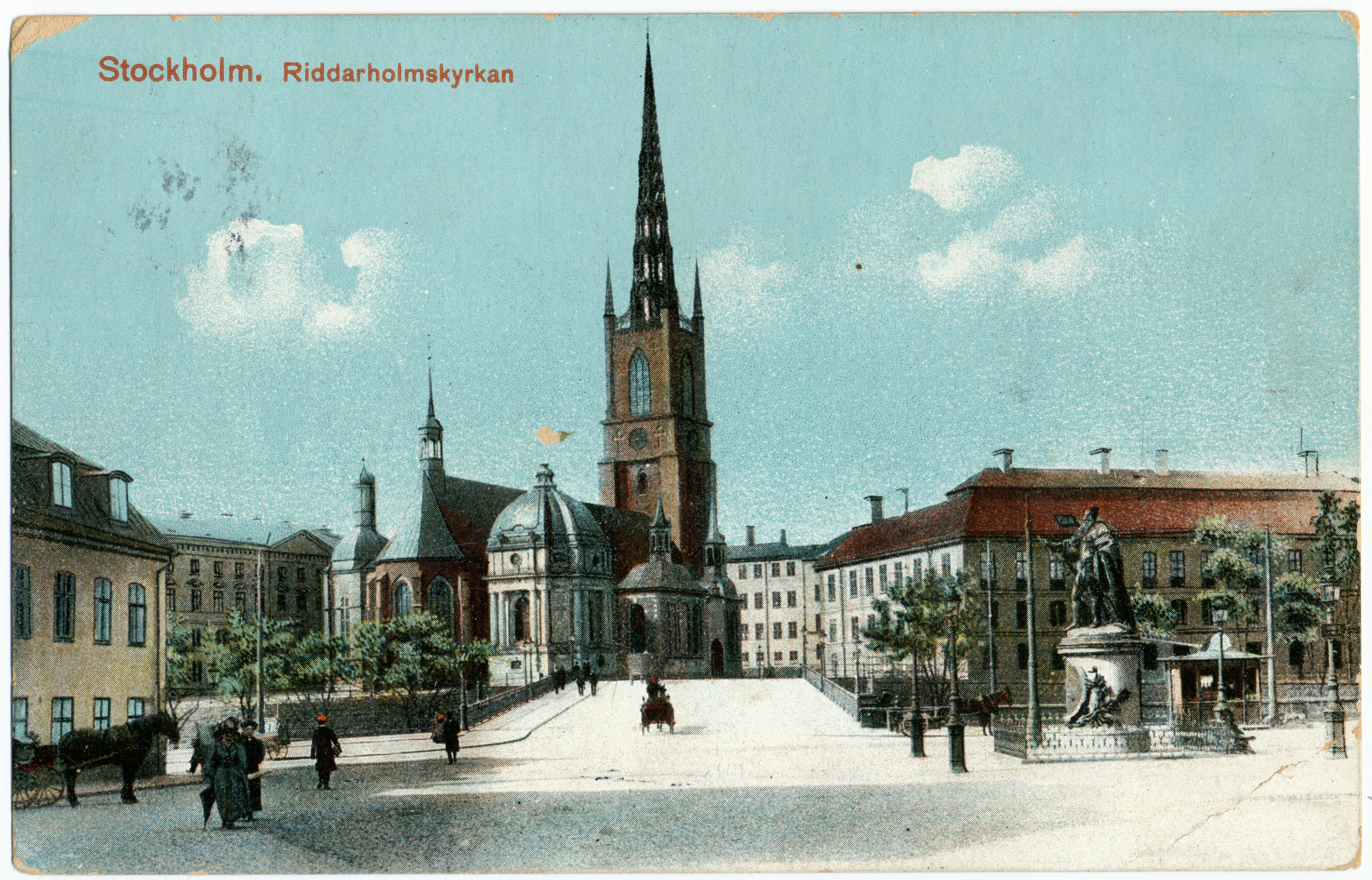 Riddarholmskyrkan, early 20th century.